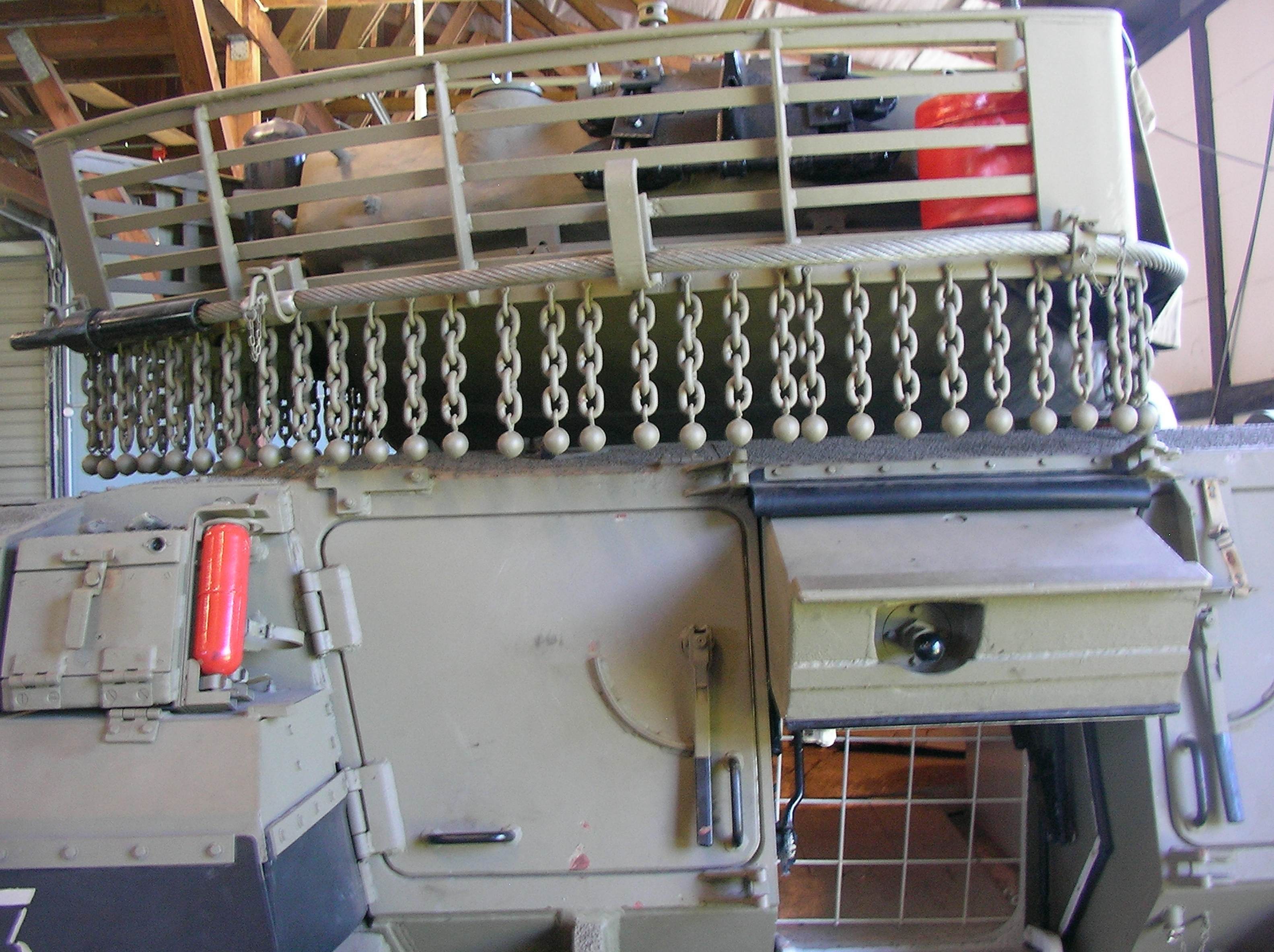 Merkva tank